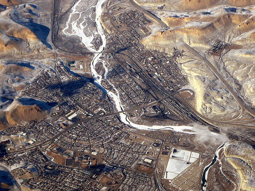 Green River, Wyoming from 36,000 feet in the air